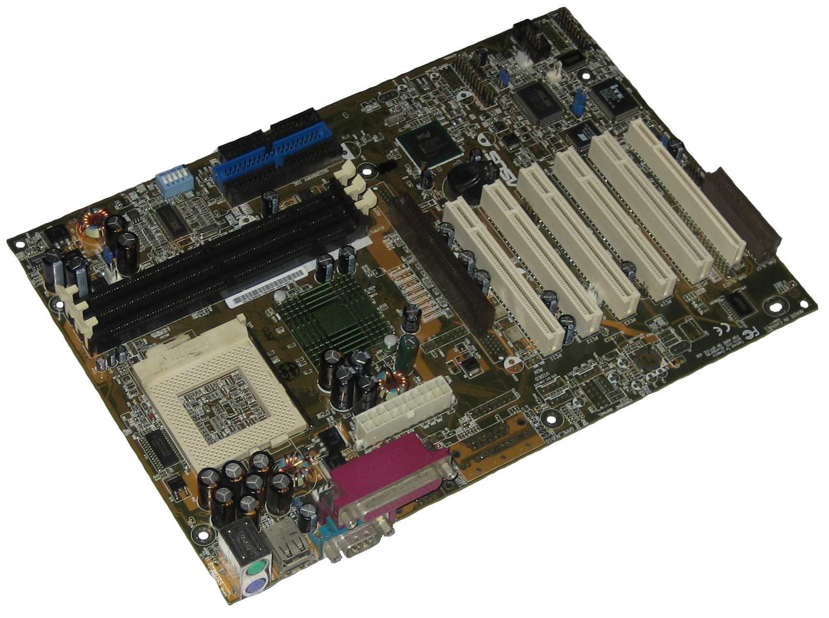 This is a picture of my Asus CUSL2-C Motherboard. This should be used as reference only. It is dated pre 2004 and does not show new technology such as SATA and PCI express etc.